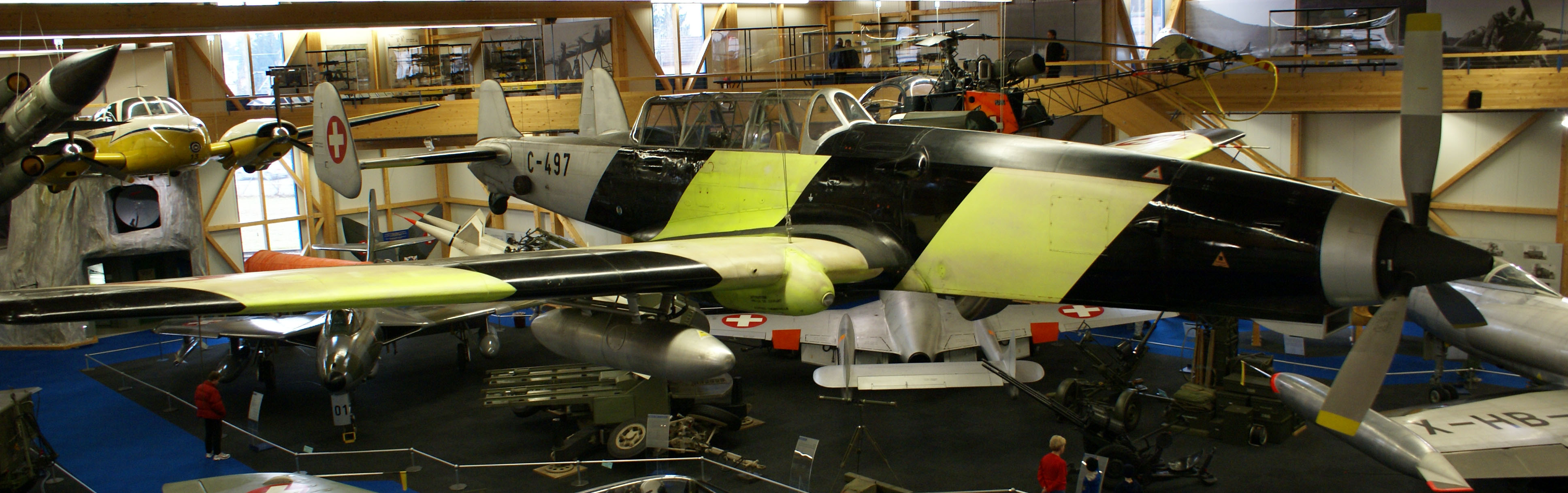 C-3605 towing plane as used by the Swiss Air Force from 1970 to 1987. A refit of the World War II C-3603-1 fighter/reconnaissance aircraft with a stronger engine.